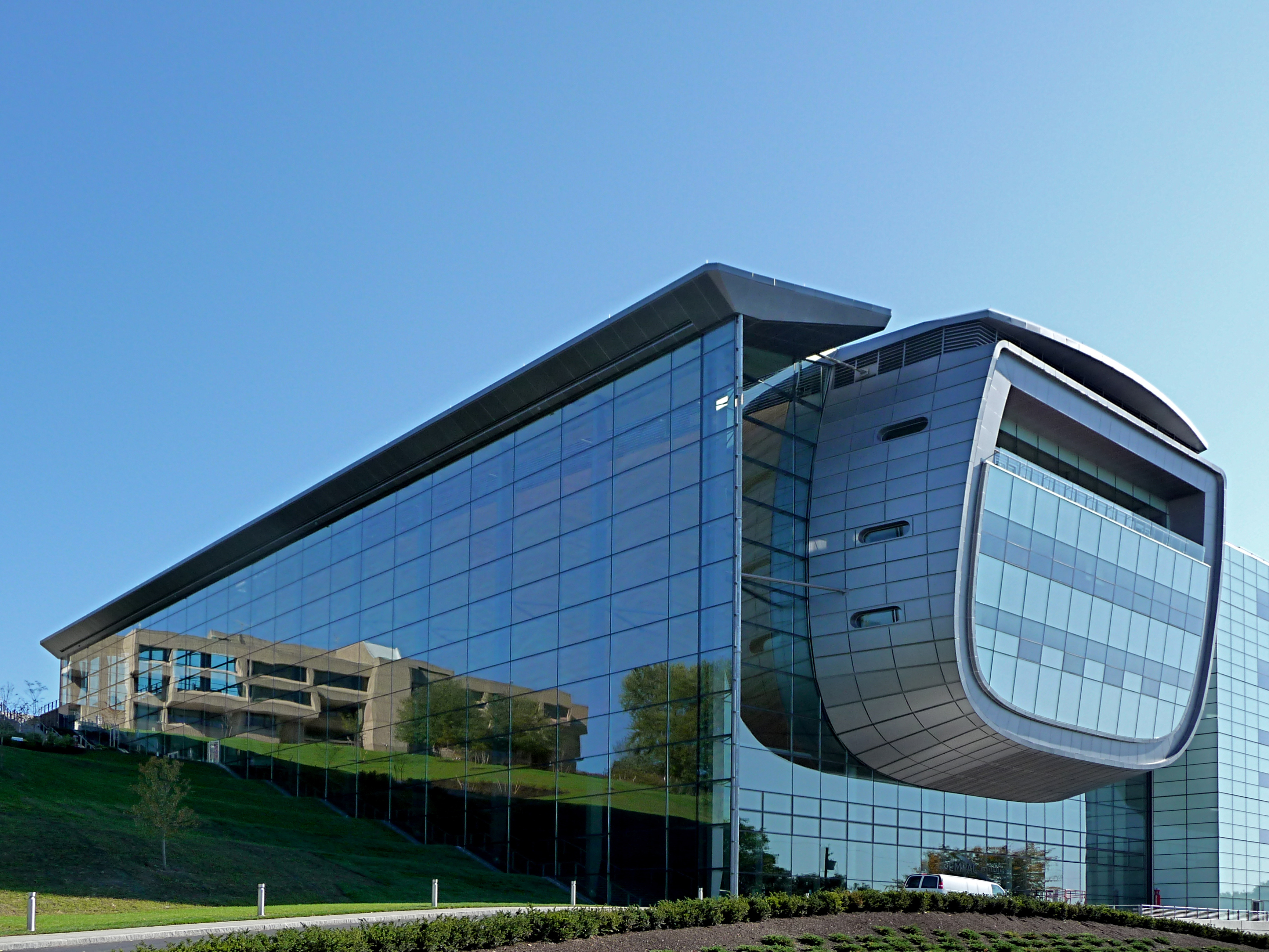 Northwest corner of the Experimental Media and Performing Arts Center on the campus of Rensselaer Polytechnic Institute in Troy, New York, with the brutalist Folsom Library reflecting in the glass